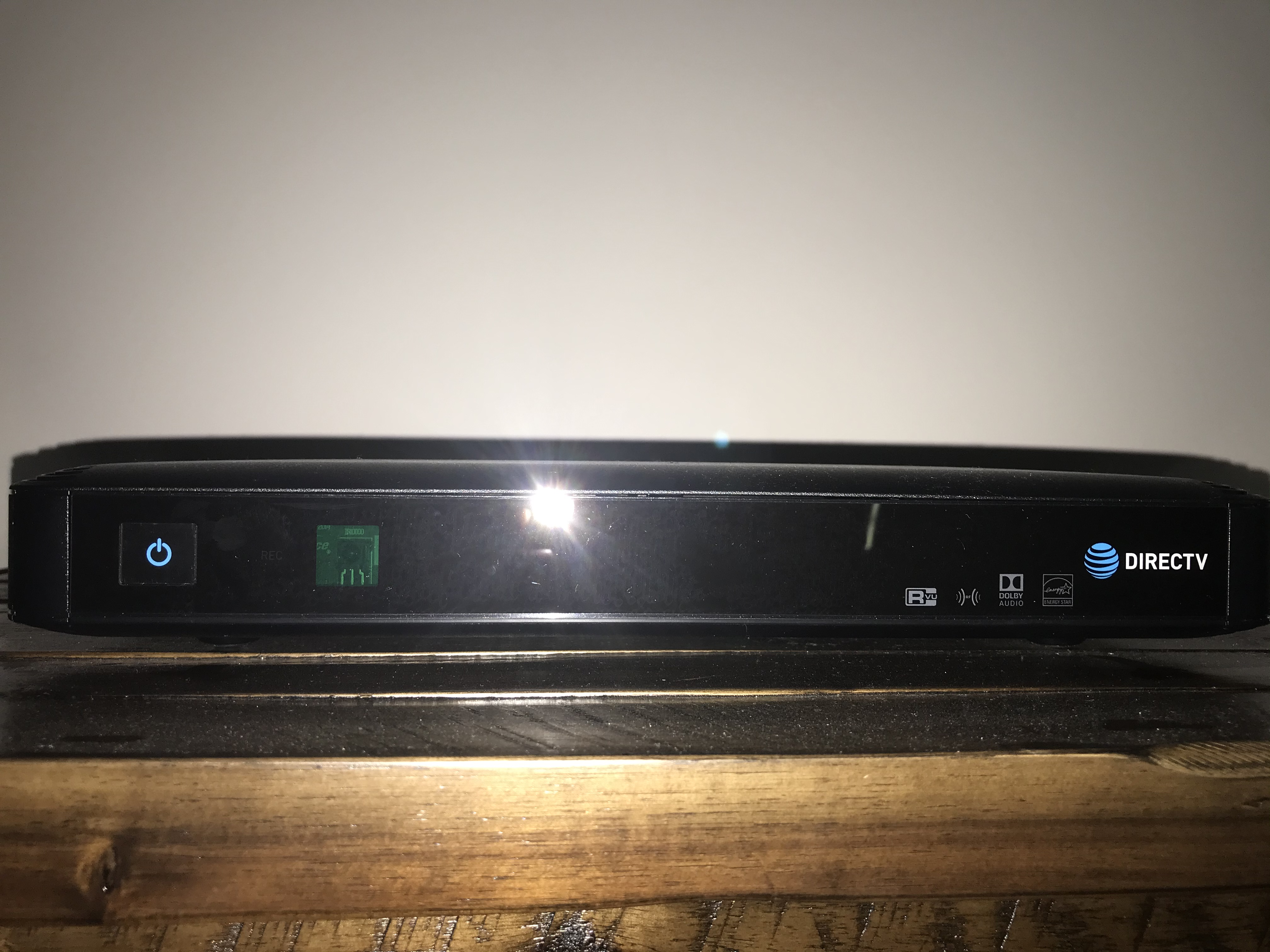 The most recent model of DirecTV’s Genie, the HR54, released in 2015.